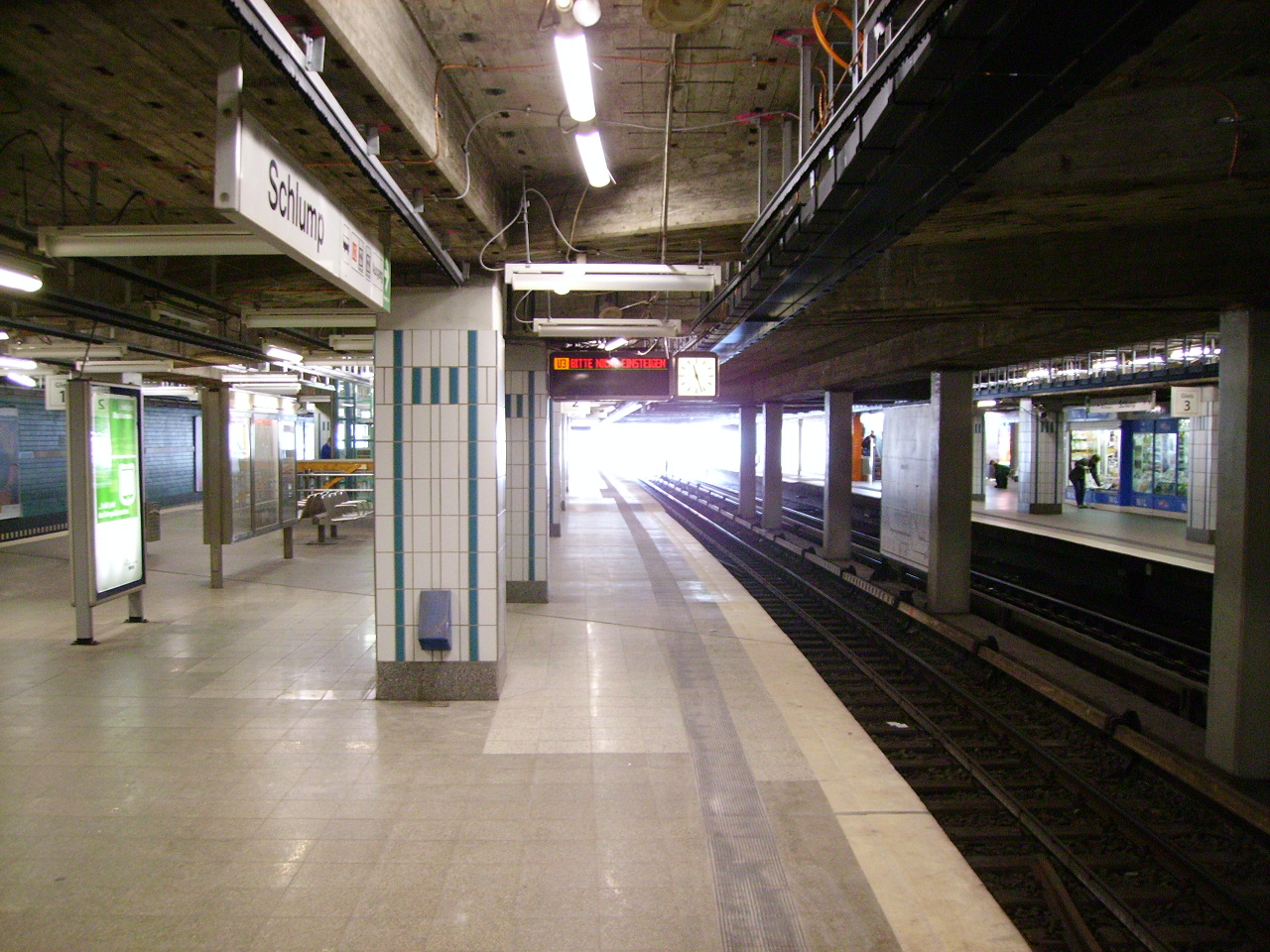 Platform of the U3 line at Schlump station in 2009